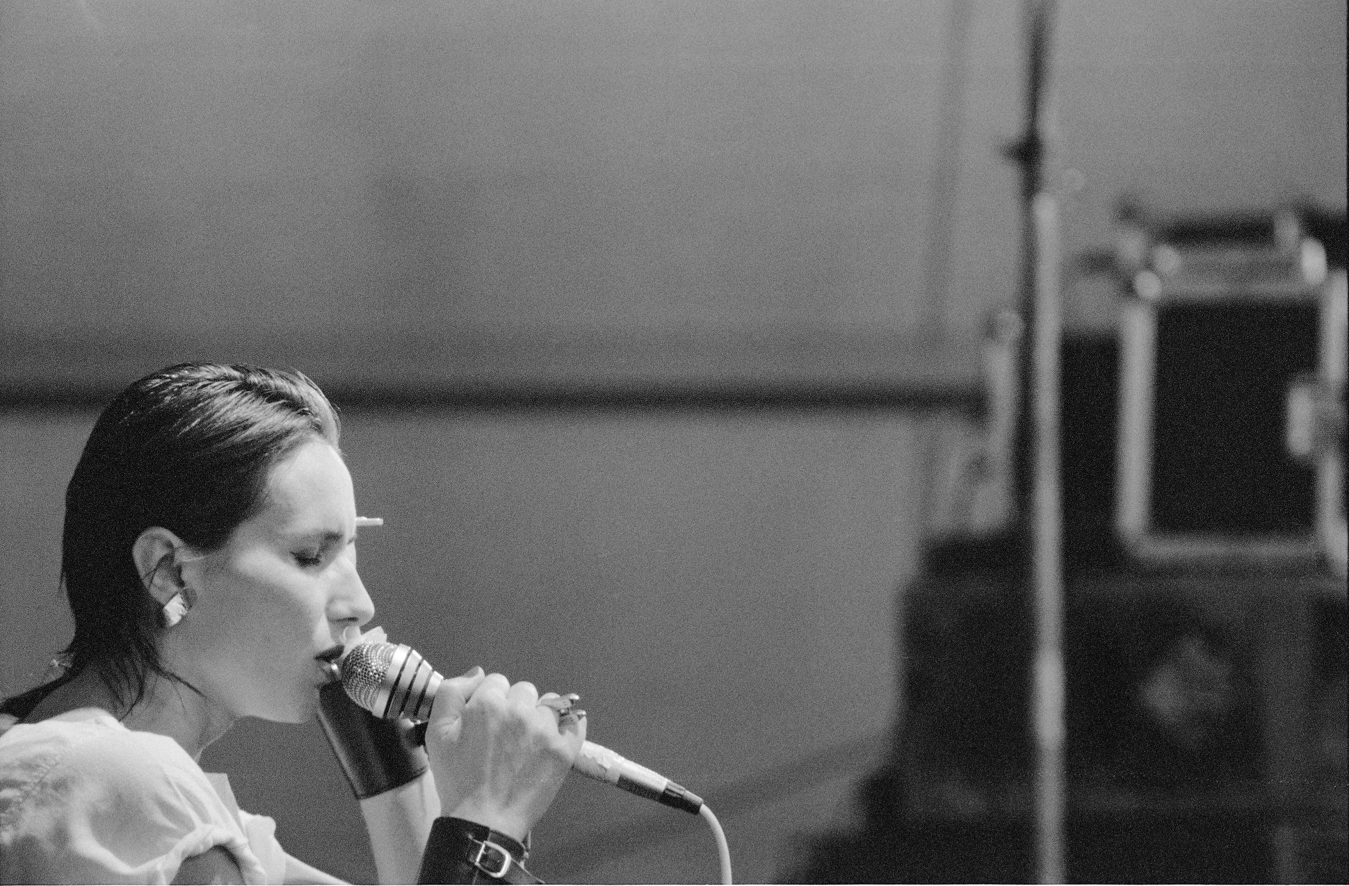 Kora of Maanam, 'Das Fest' 1985 in Karlsruhe/Germany